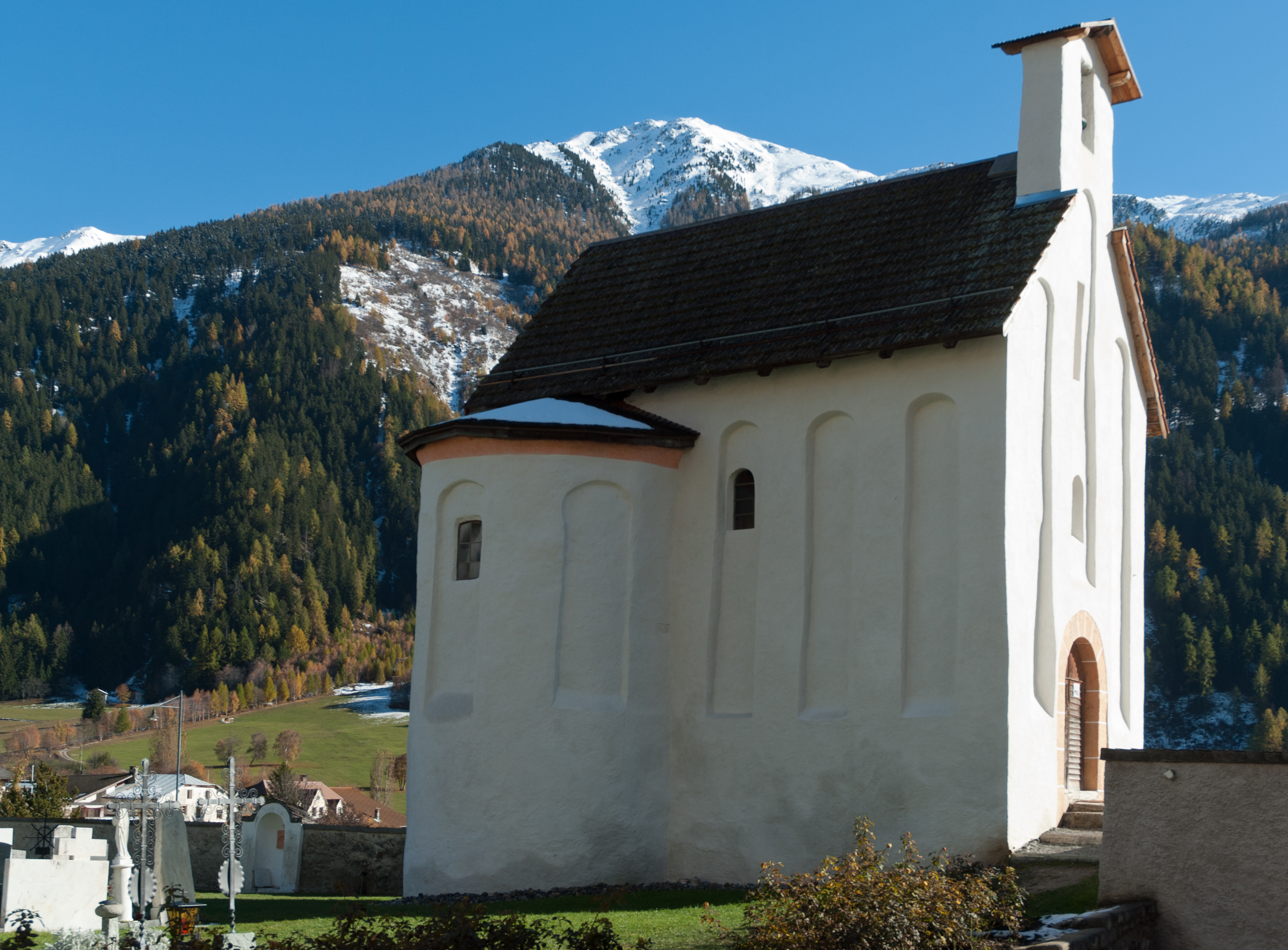 Cross-Chapel of the benedictine-monastery in Müstair, Switzerland